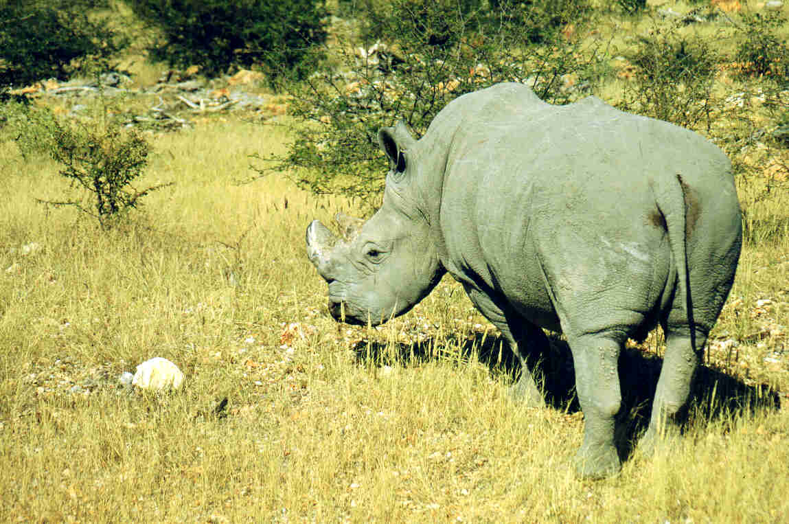 The rhinoceros Brutalis (1977-2000), lived born in United Kingdom, several years in Aalborg Zoo and Givskud Zoo in Denmark until 1994, when he was transported "back" to Namibia